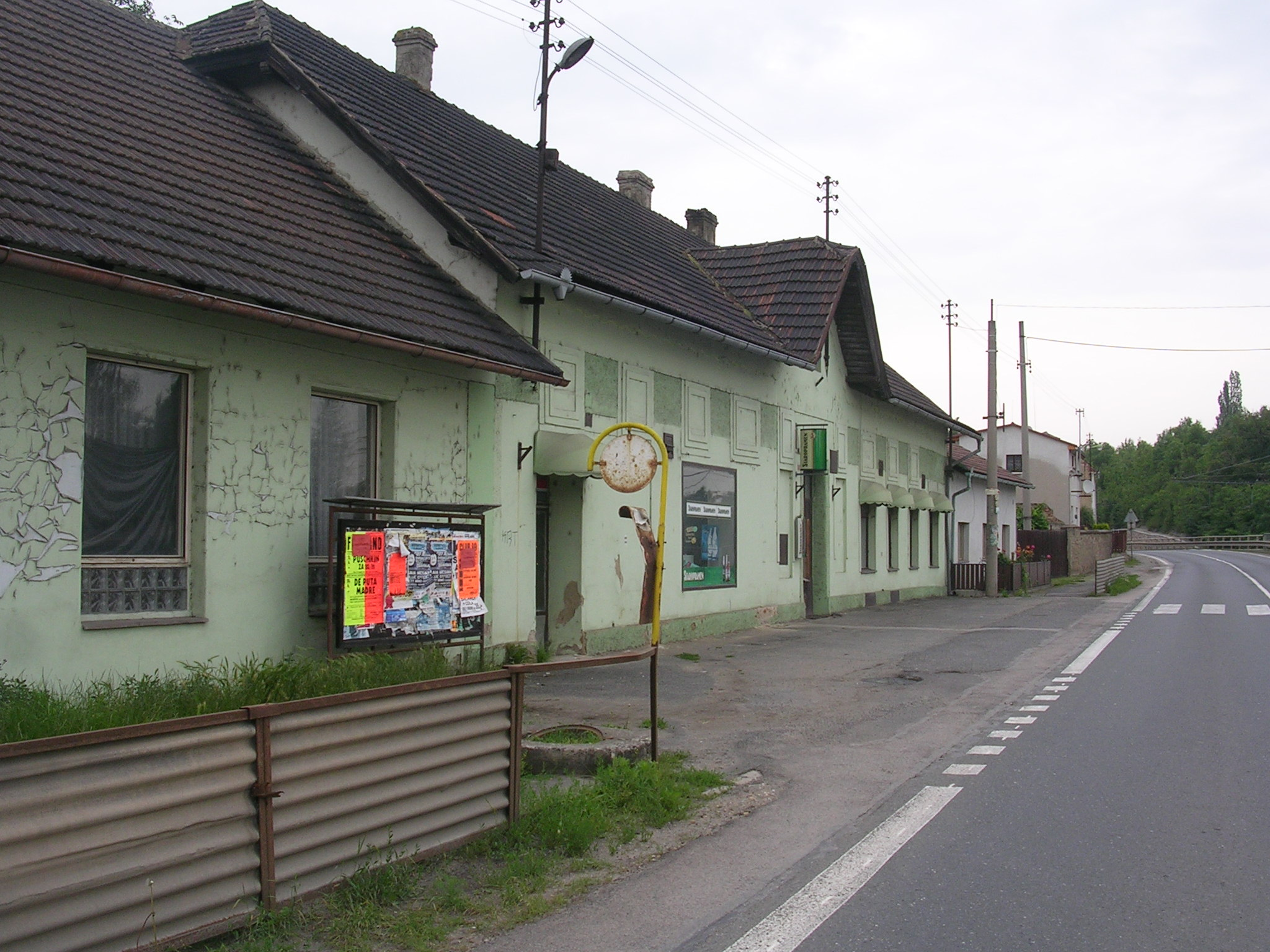 Nová Ves-Nové Ouholice, Mělník District, Central Bohemian Region, the Czech Republic. A bus stop and a pub. - Google Maps - Google Earth